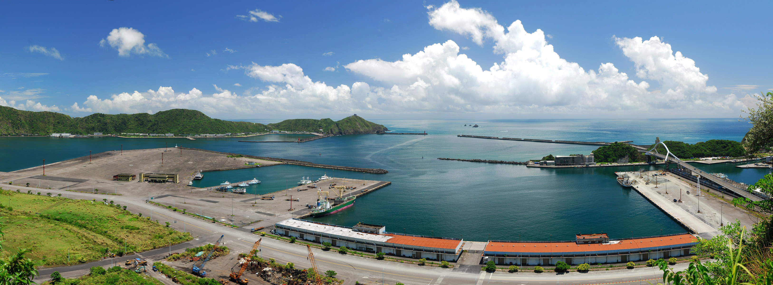 SuAo Harbor is a commercial, military, and fishing harbor located in SuAo Bay, a natural harbor site in northeast Taiwan.